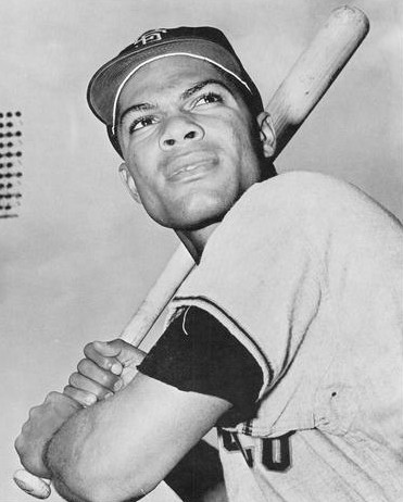 Professional baseball player Felipe Alou